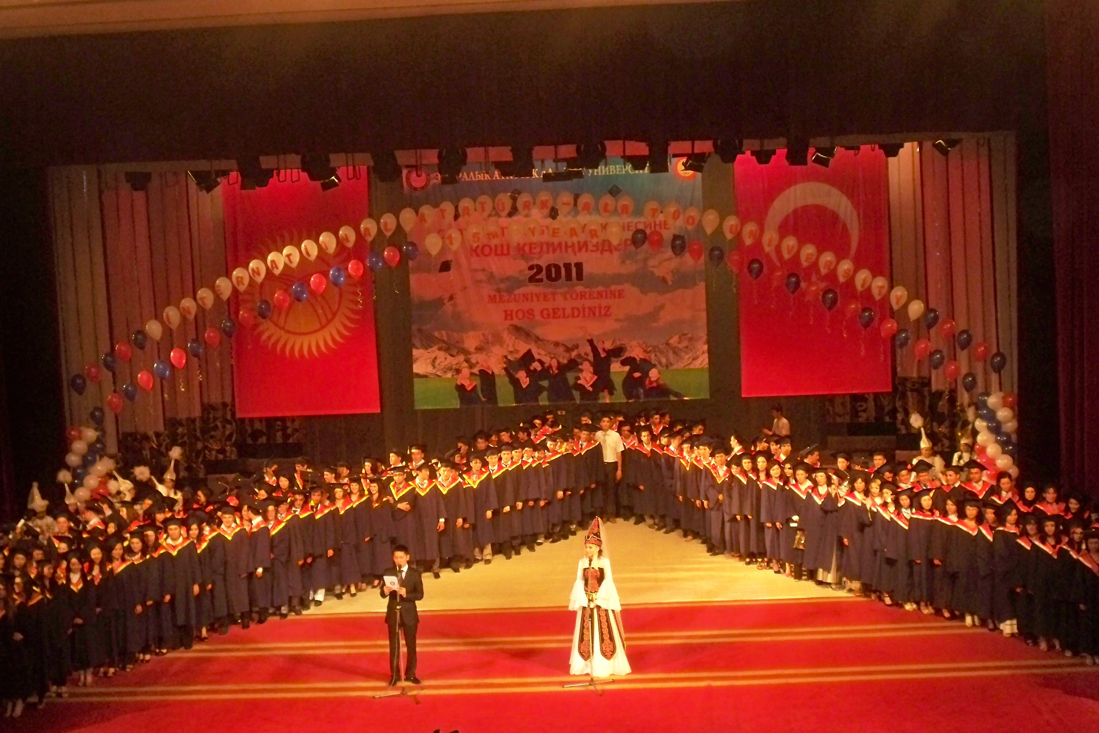 IAAU Graduation Ceremony, Class of 2011